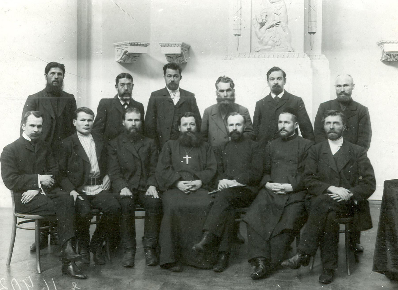 The members of the second Russian State Duma from Vyatka Governorate, 1907. Стоят: Наумов, Иван Афанасьевич Бодров, Александр Владимирович Зайцев, Михаил Герасимович Вахрушев, Василий Алексеевич Алашеев, Николай Валерианович Шешин, Владимир Иванович Сидят: Салтыков, Сергей Николаевич Ефремов, Лаврентий Александрович Шабалин, Яков Семёнович Тихвинский, Фёдор Васильевич Деларов, Дмитрий Иванович Масагутов, Хабибрахман Ахметситдикович Финеев, Иван Лаврентьевич